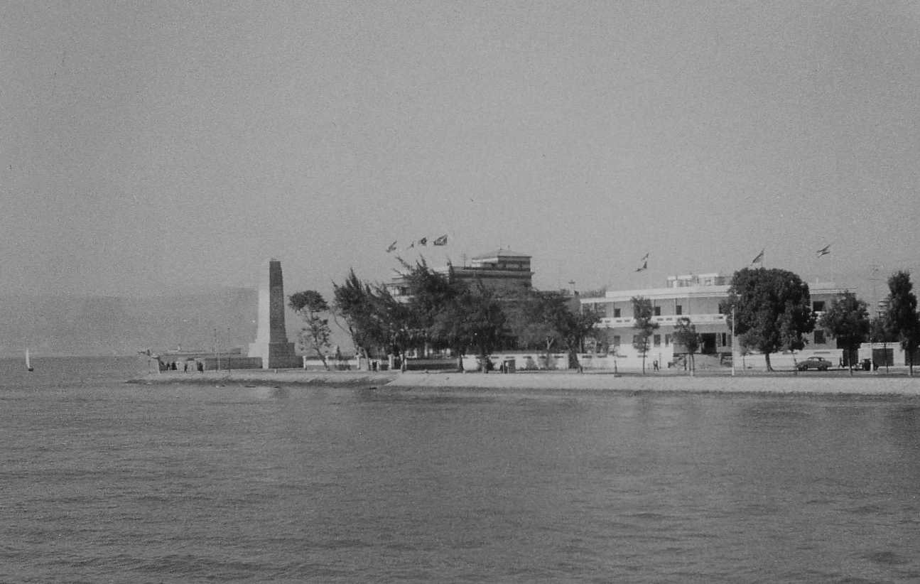 Suez - The Port Tawfik Memorial (The Indian War Memorial) - in December 1957